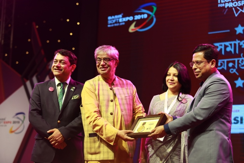 Bangladesh Association of Software and Information Services (BASIS) Photos of 2019 Gala Night & Closing Ceremony of BASIS SoftExpo 2019